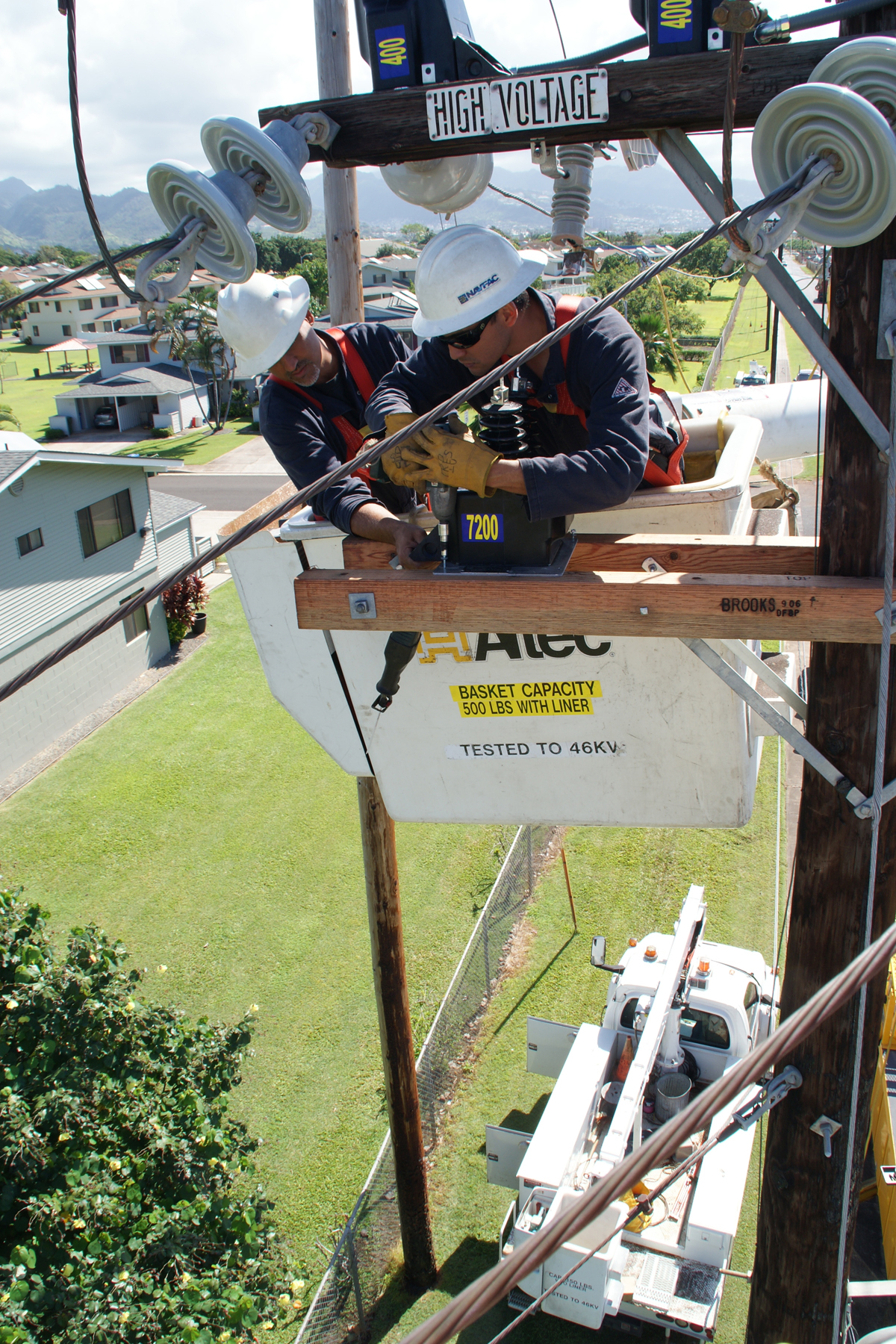 PEARL HARBOR (March 15, 2011) High-voltage electricians from Naval Facilities Engineering Command (NAVFAC) Hawaii reconfigure electrical circuitry and install new, accurate primary metering devices for the Radford and Halsey Terrace Housing areas near Pearl Harbor. The conservation initiative is by direction of the Secretary of the Navy to reduce and conserve electricity. (U.S. Navy photo by Denise Emsley/Released)